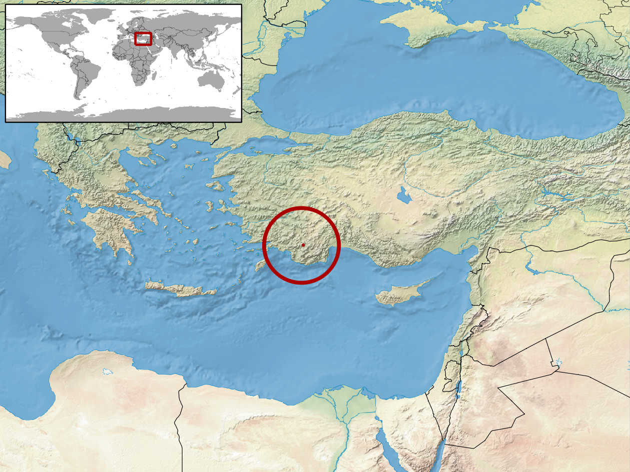 geographic distribution of Vipera anatolica syn Vipera ursinii anatolica (Native: Turkey)